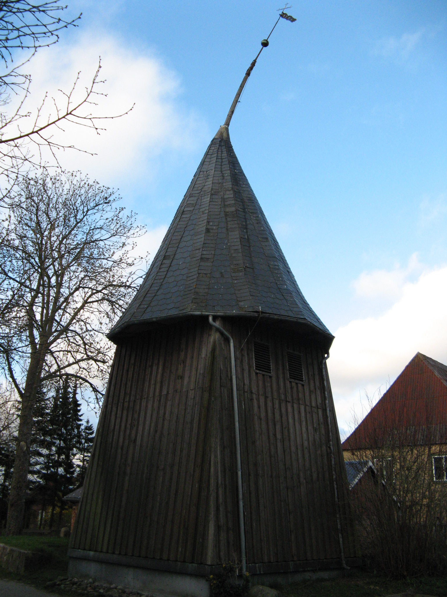 Church in Hollingstedt, bellfry Author: Dirk Ingo Franke